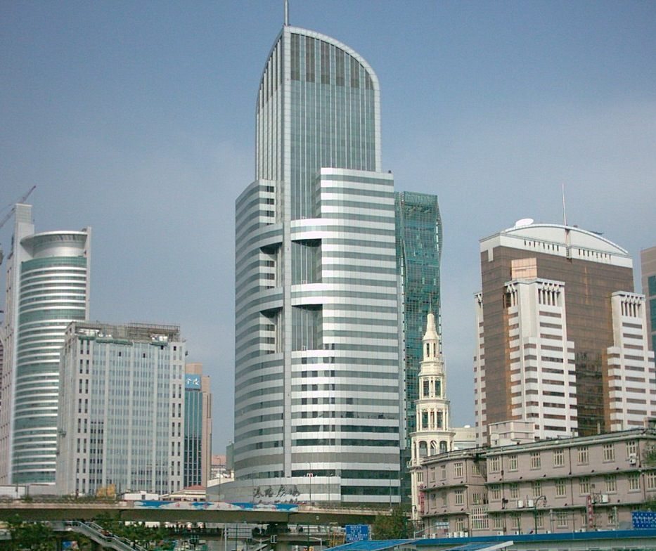 Harbour Ring Plaza Shanghai